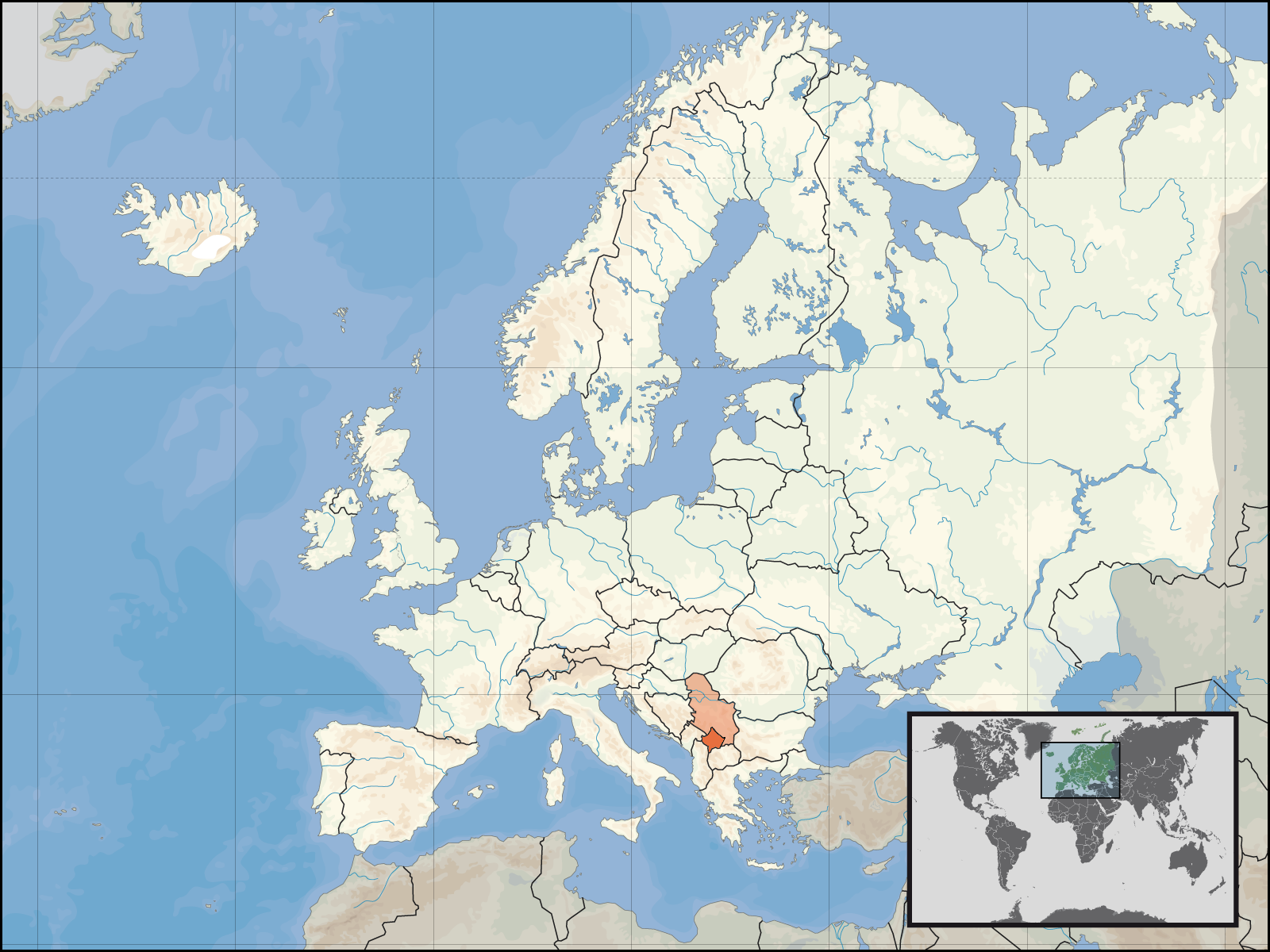 Map showing the location of Kosovo in europe